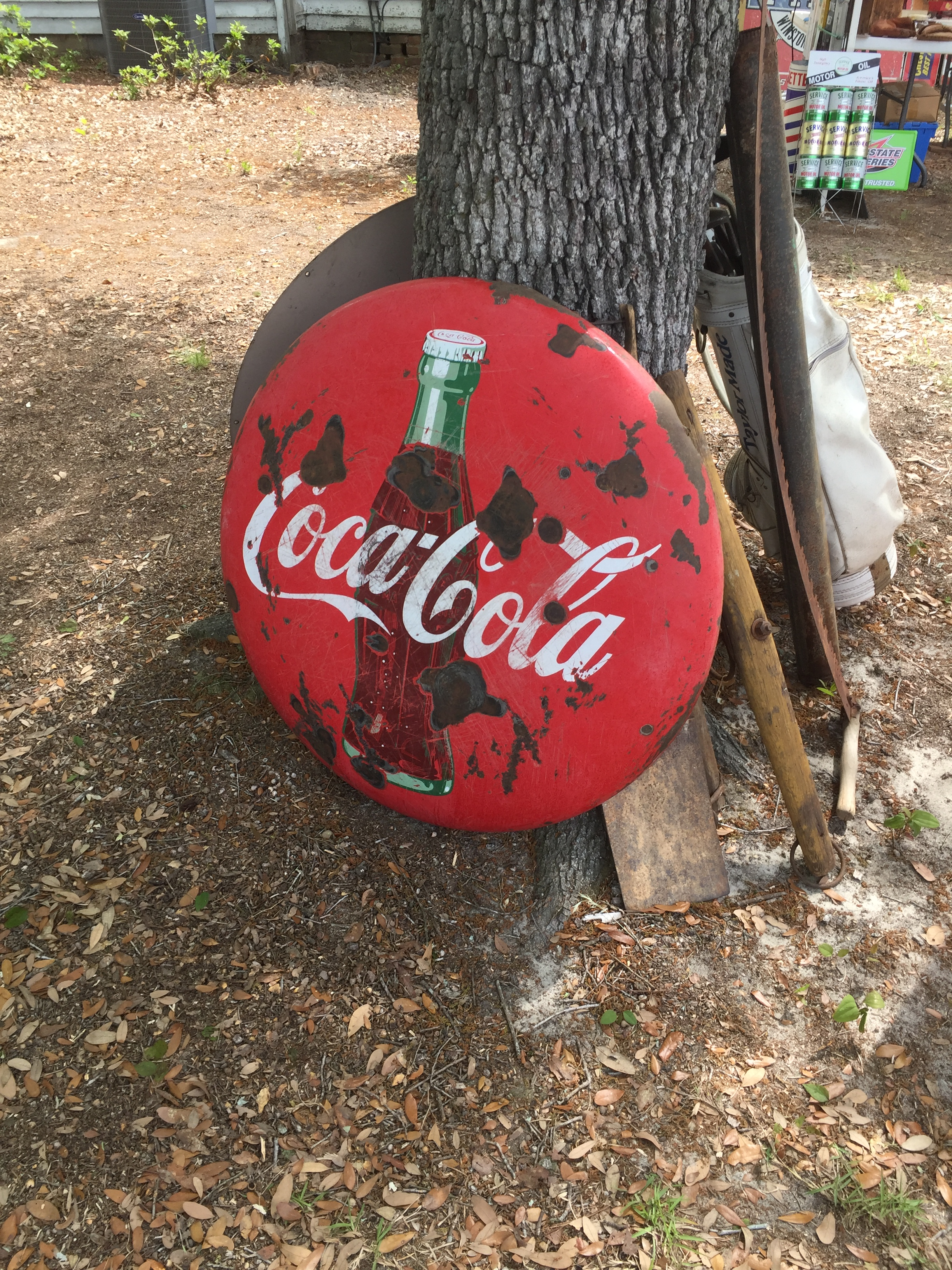 An old Coca Cola sign on display by a vendor during the May 2018 Cameron Antiques Street Fair, Cameron, NC.